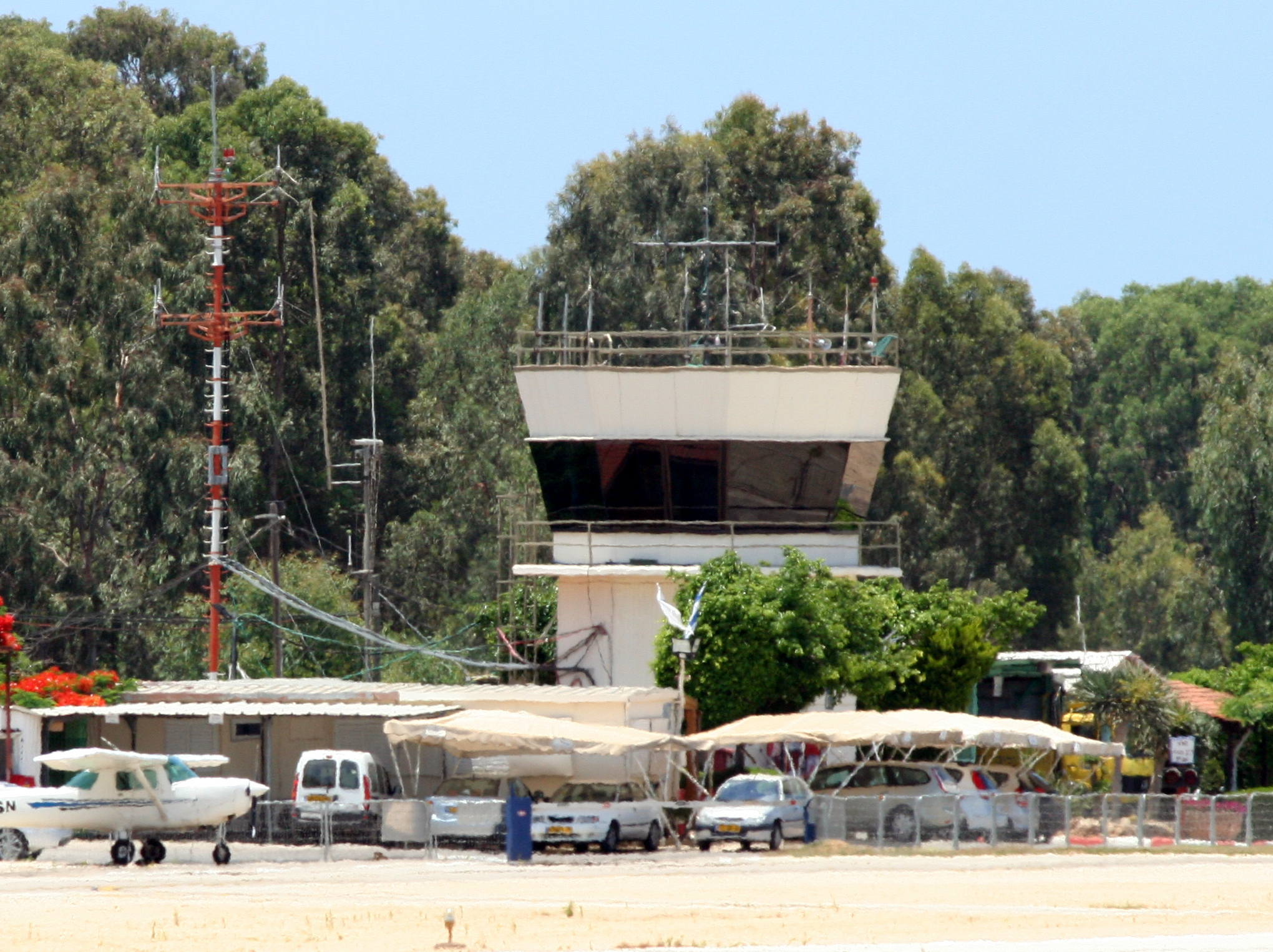 Herzliya airport tower